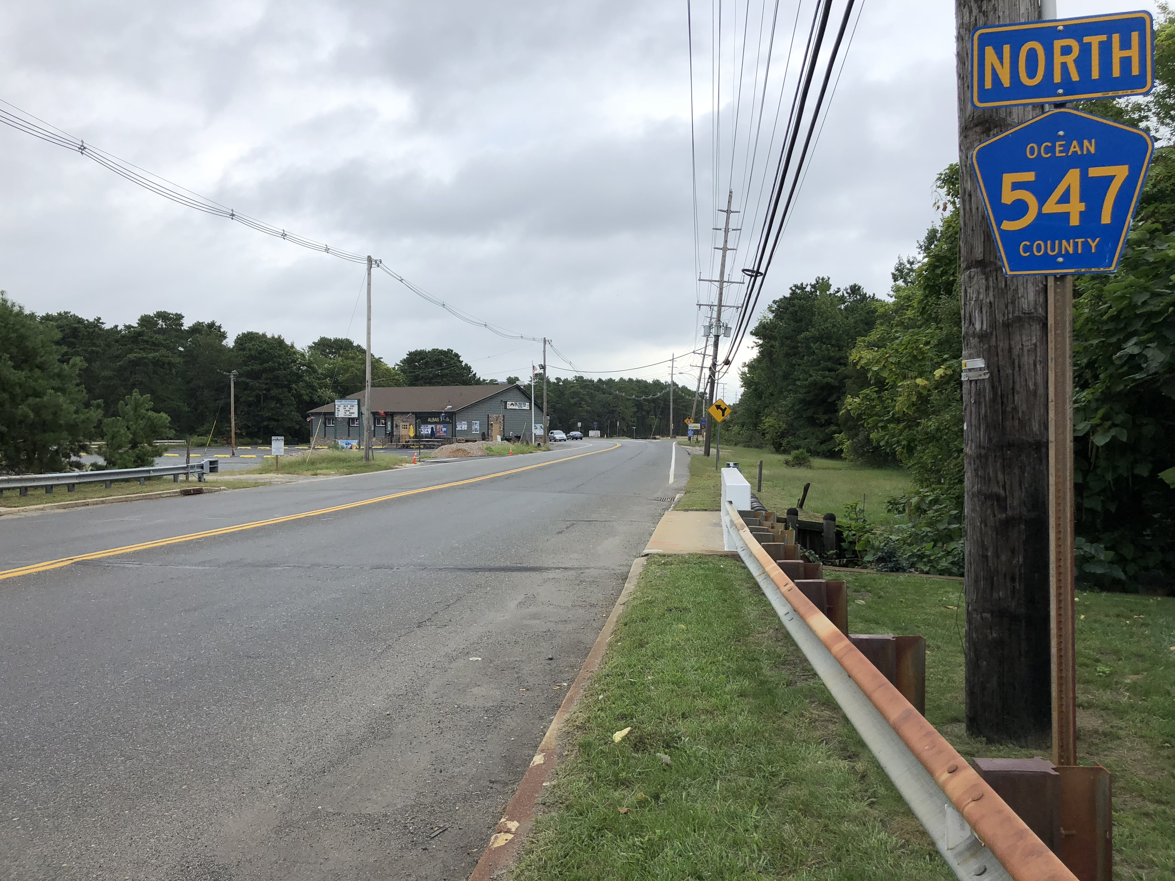 View north along Ocean County Route 547 (Center Street) just north of New Jersey State Route 70 in Lakehurst, Ocean County, New Jersey